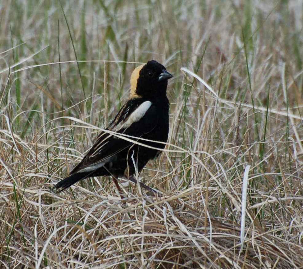 Dolichonyx oryzivorus adult male in breeding plumage